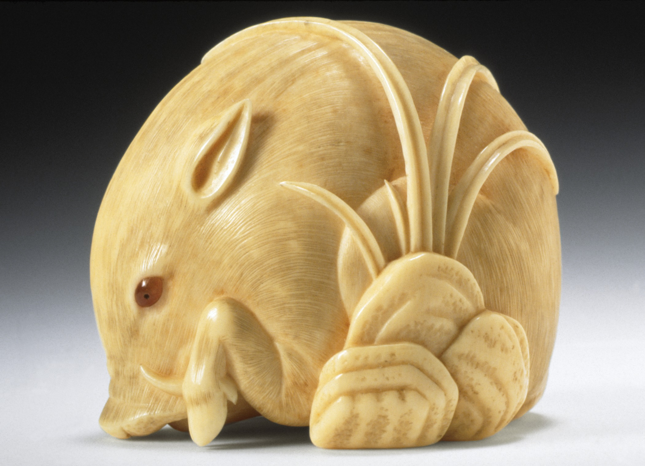 Japan, mid- to late 19th century Costumes; Accessories Ivory with sumi, inlays 1 5/16 x 1 1/4 x 1 3/16 in. (3.4 x 3.1 x 3.0 cm) Raymond and Frances Bushell Collection (AC1998.249.172) Japanese Art